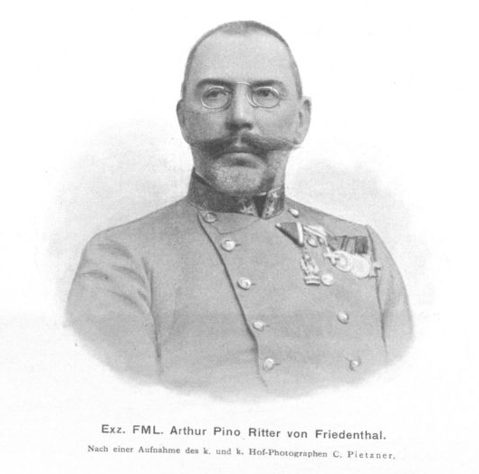 Portrait of Arthur Georg Pino von Friedenthal (1843-1930), Austrian general.